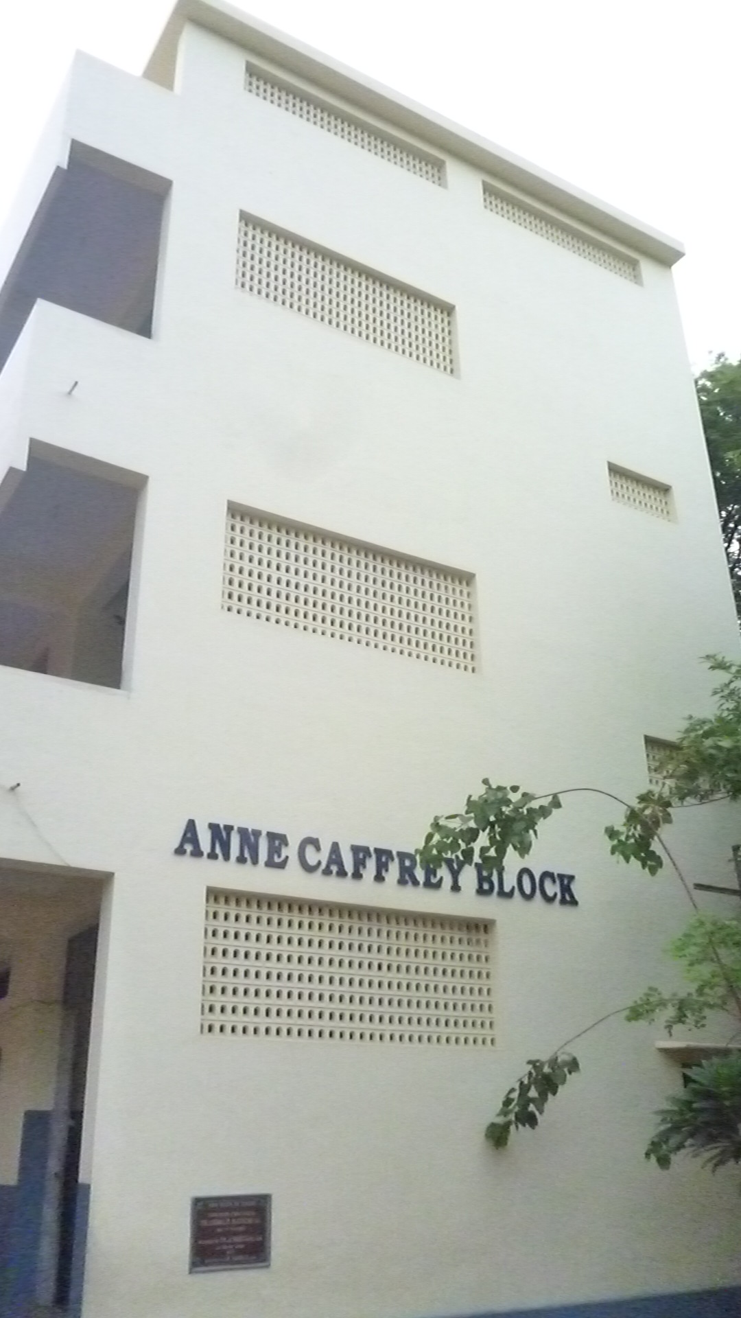 The Anne Caffrey Block of SJAIHSS, Perambur, Chennai